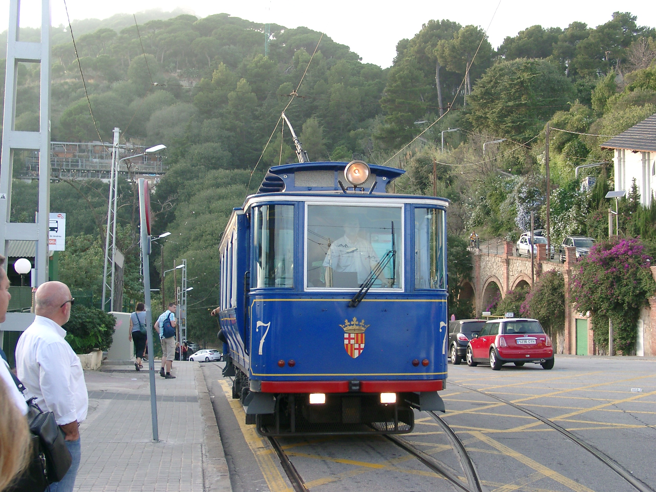 Tramvia Blau, Barcelona, No. 7